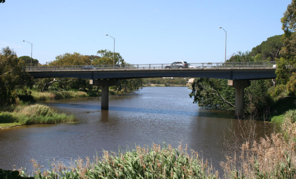 Princes Bridge over the Barwon River, carrying Shannon Avenue - Geelong, Victoria, Australia